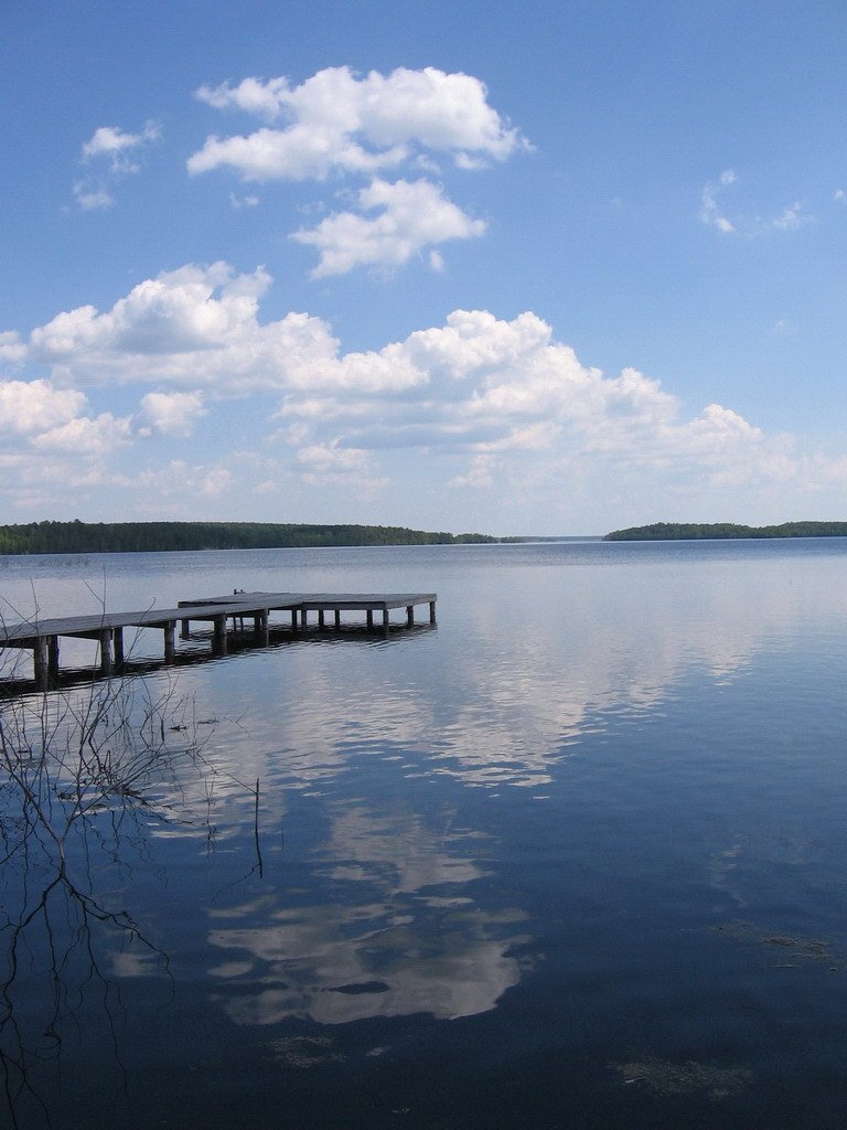 Water surface of Uvildy.